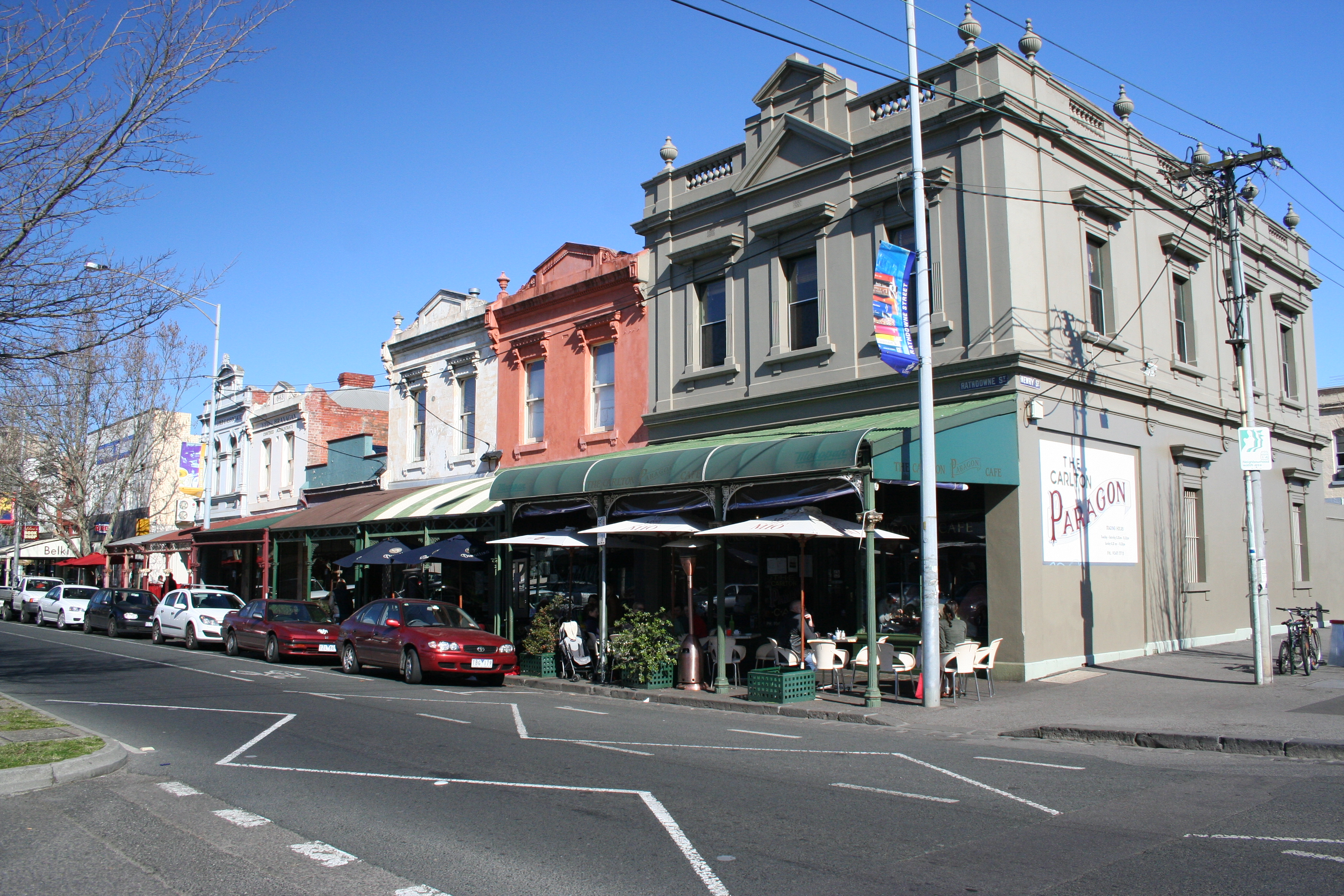 Rathdowne Street in Carlton North, Victoria, Australia, looking south-west from Curtain Square